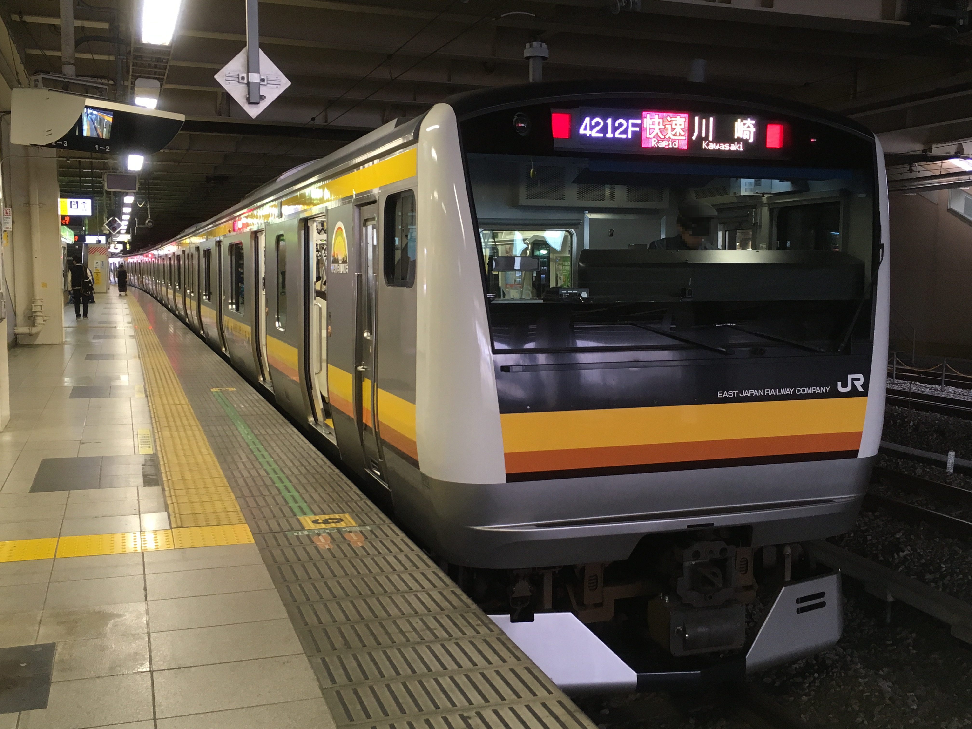 JR East E233 series EMU set N36 at Tachikawa Station on a Nambu Line service